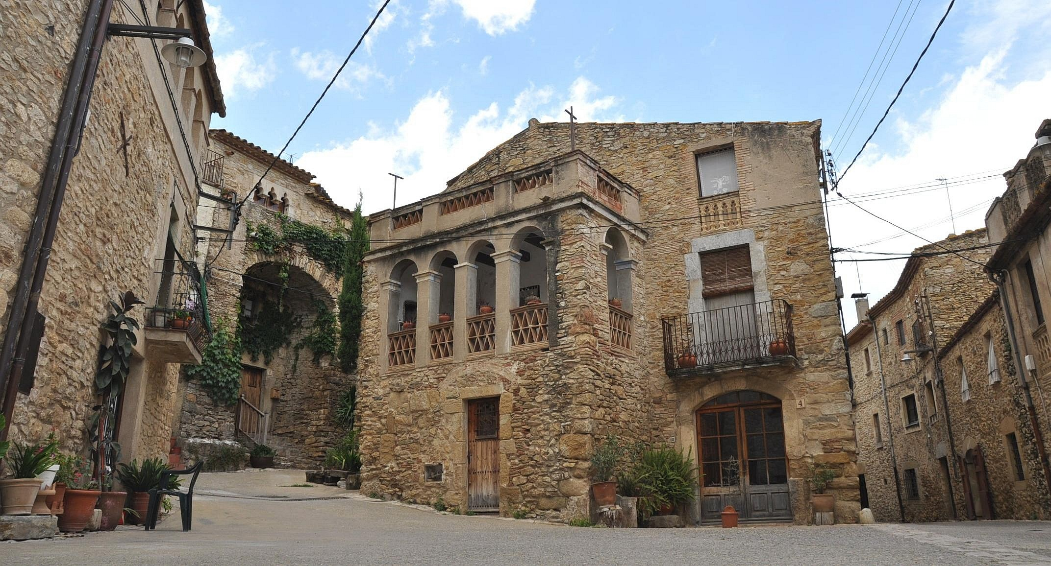 Centre of Palau-sator, a fortified village in the County of Baix Empordà (Catalonia, Spain).